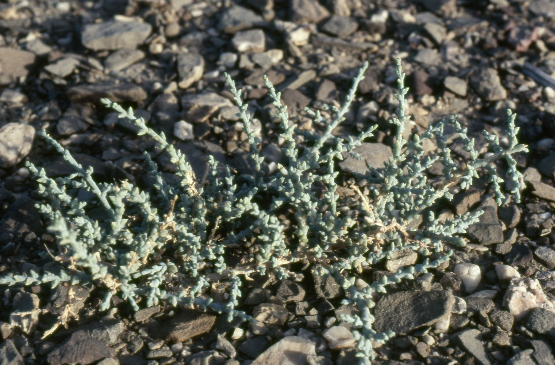 Halothamnus iranicus. Pakistan, Baluchistan, near Hoshab